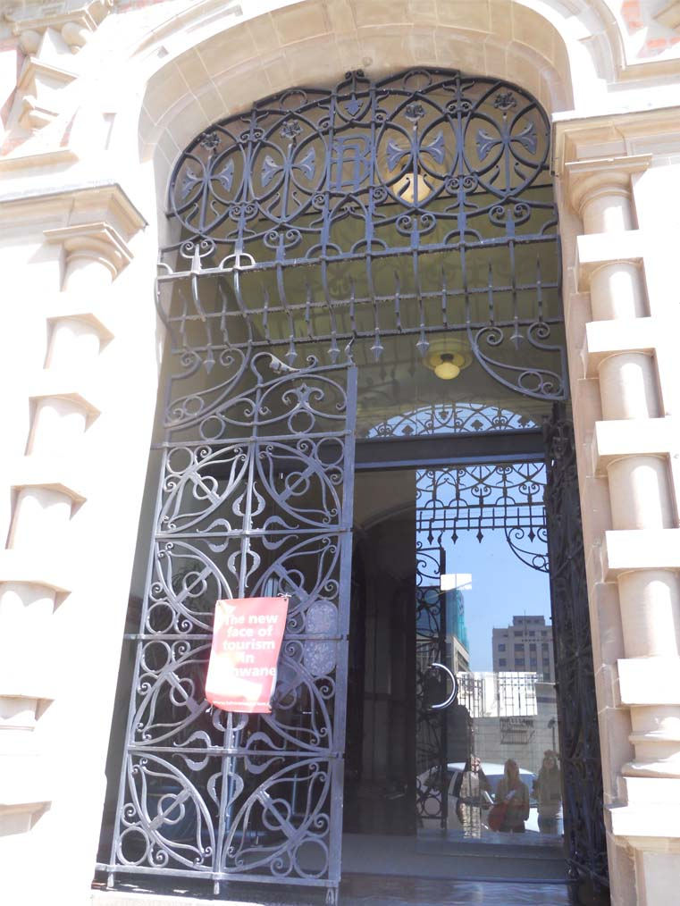 Entrance of the old Nederlandsche Bank Building in Pretoria, with tulip motives, in Art Nouveau style